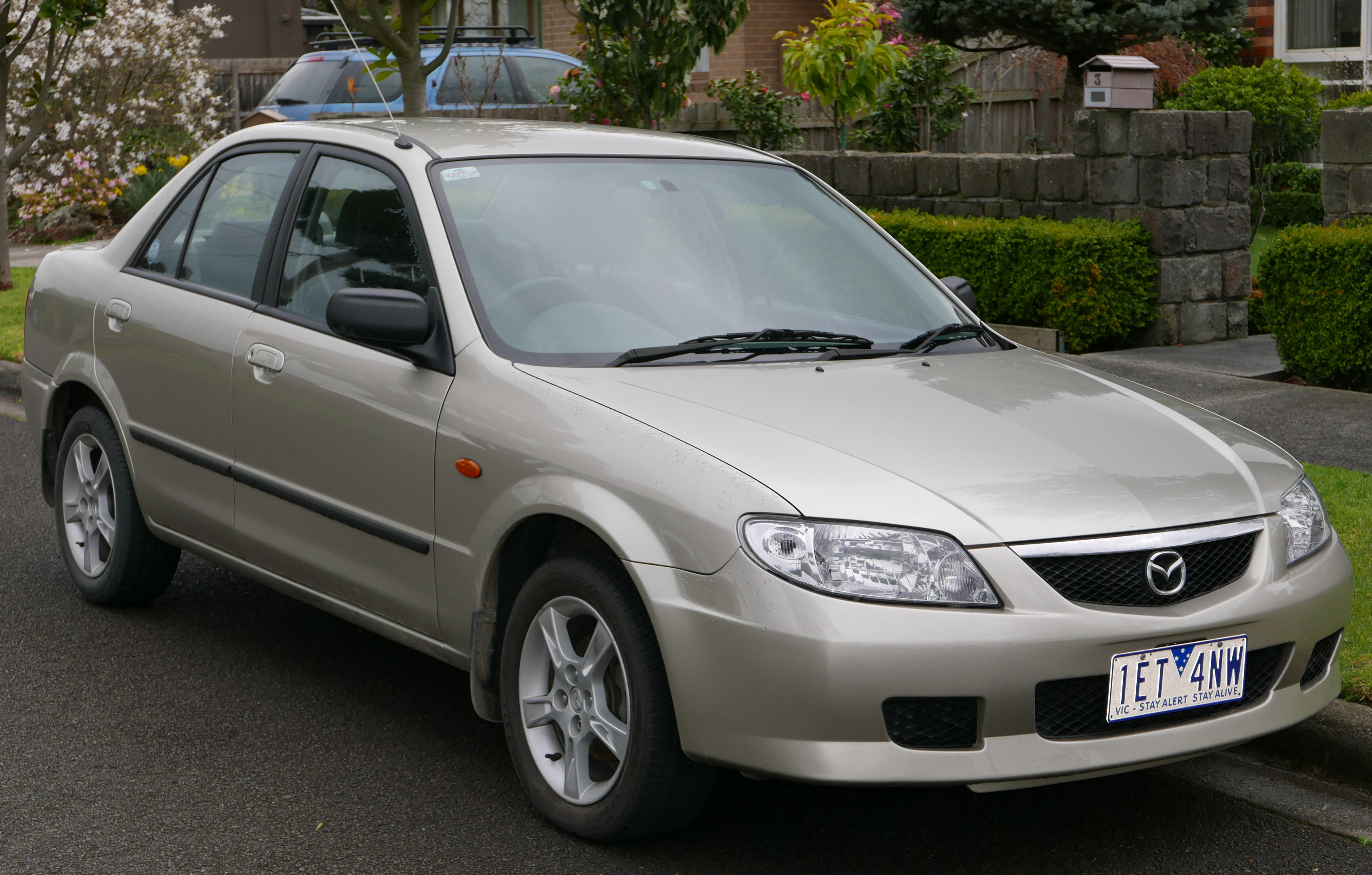 2003 Mazda 323 (BJ II) Protegé Shades sedan. Photographed in Doncaster, Victoria, Australia. Vehicle registration enquiry resultsJurisdictionVictoriaRegistration1ET4NWChassis codeJM0BJ10P200244147Engine codeFP887654Compliance date2003-09Year of manufacture2003